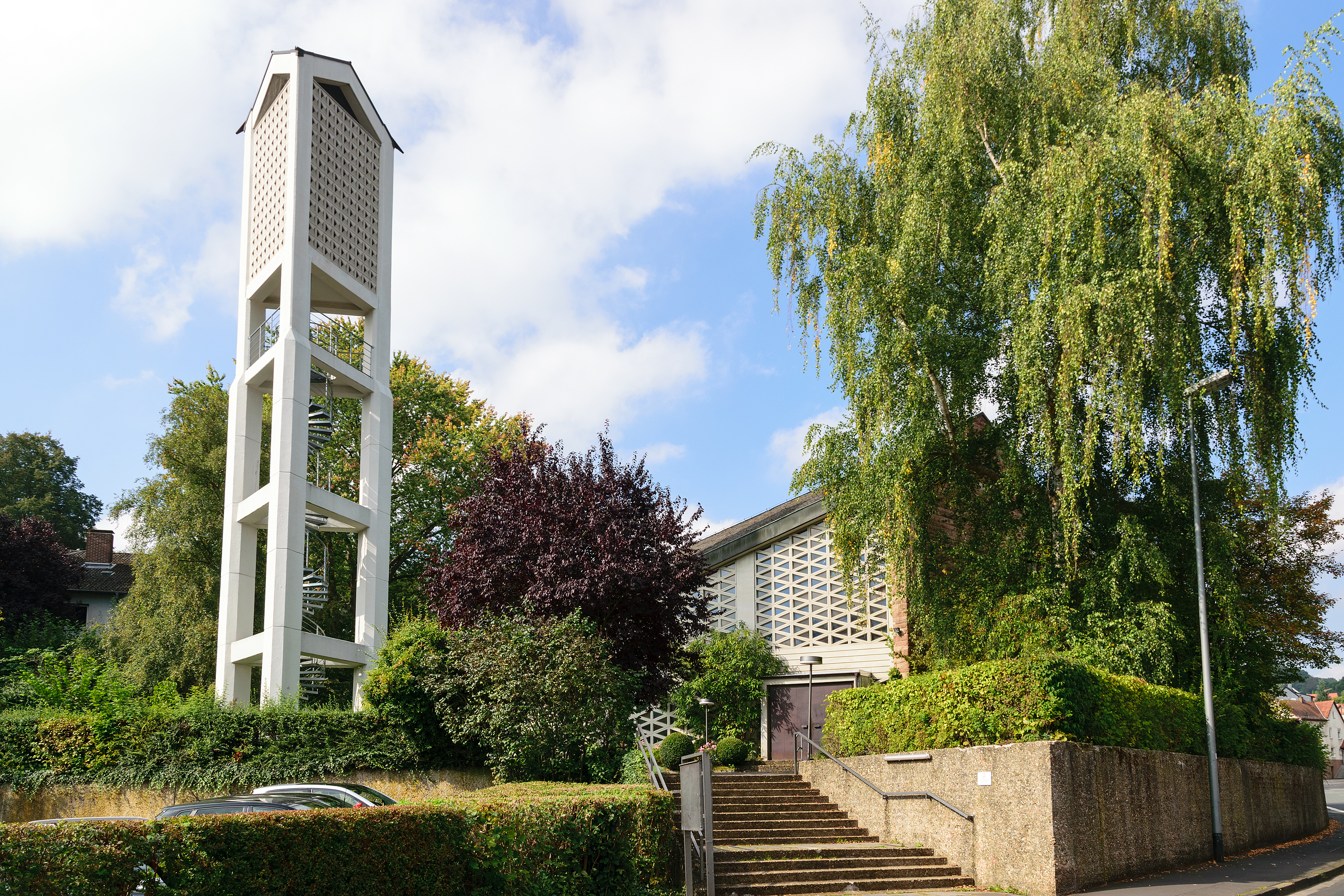 The Saint Matthew church in Ockershausen, Marburg